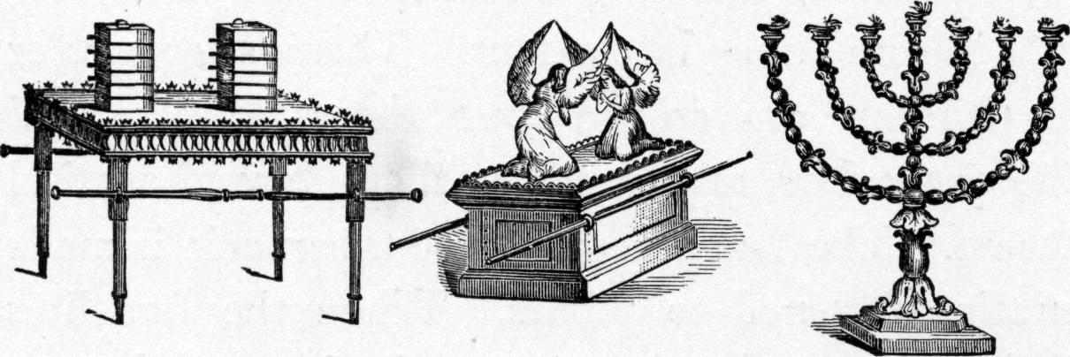 Things that Were Made To Go into the Tabernacle. Caption: "These are some of the things that were made to go into the tabernacle. They are all very beautiful. The table is made of gold. It has twelve loaves of bread on it called shew-bread. There is a golden box too ; it is called the ark. It has two angels on its lid. The angels are made out of pure gold. And there is a golden candlestick, to burn and give light, inside of the tabernacle." Illustration from the 1897 Bible Pictures and What They Teach Us: Containing 400 Illustrations from the Old and New Testaments: With brief descriptions by Charles Foster